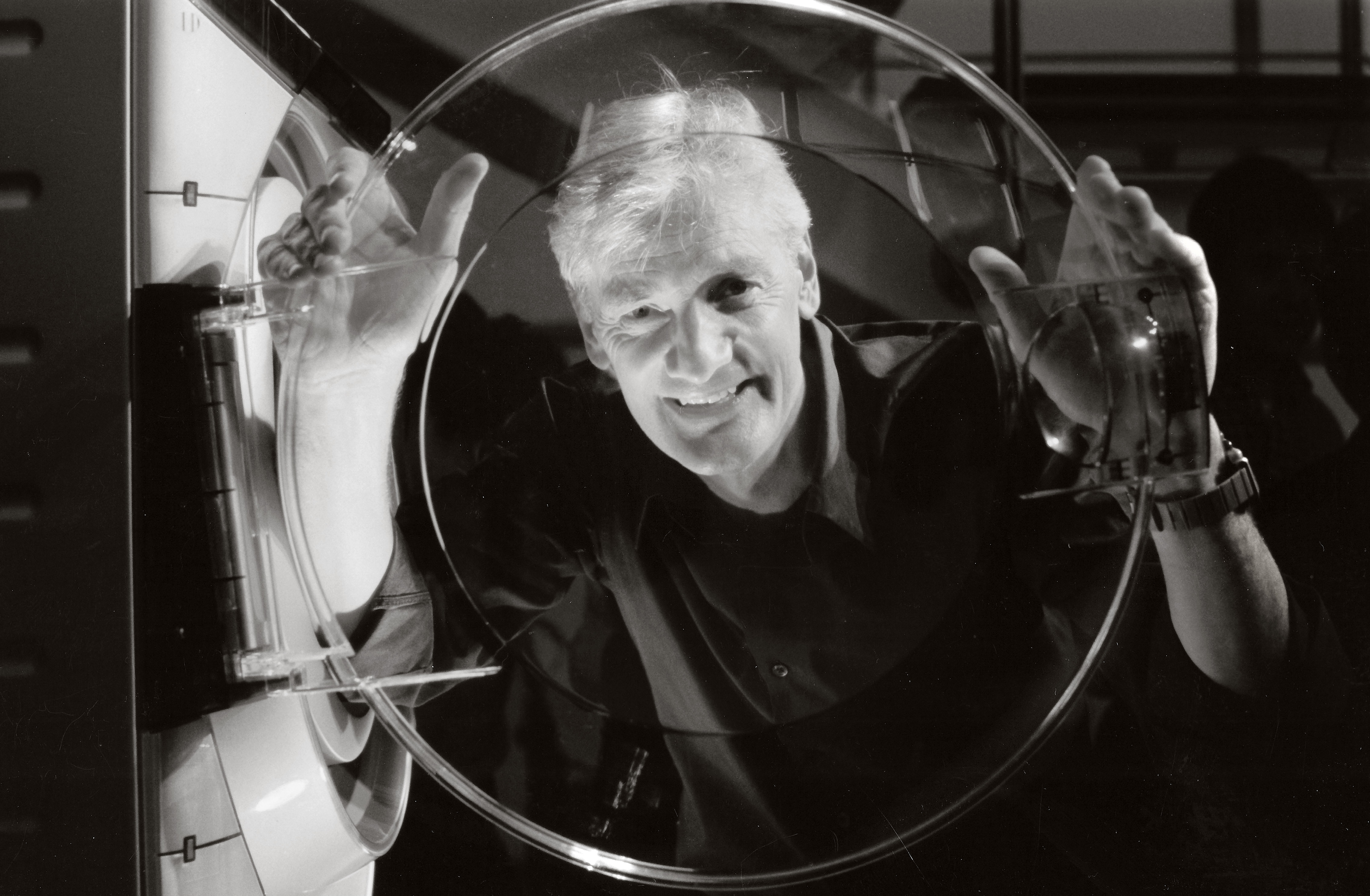 Sir James Dyson (born 2 May 1947) is a British industrial designer and founder of the Dyson company (here in 2000 with his ContraRotator washing machine).